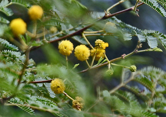 Babool Acacia nilotica at Hodal in Faridabad District of Haryana, India.